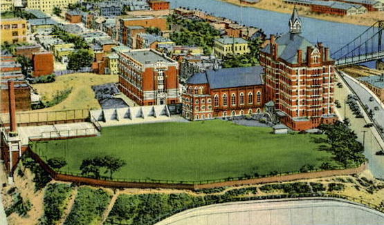 A postcard image of Duquesne University's campus.